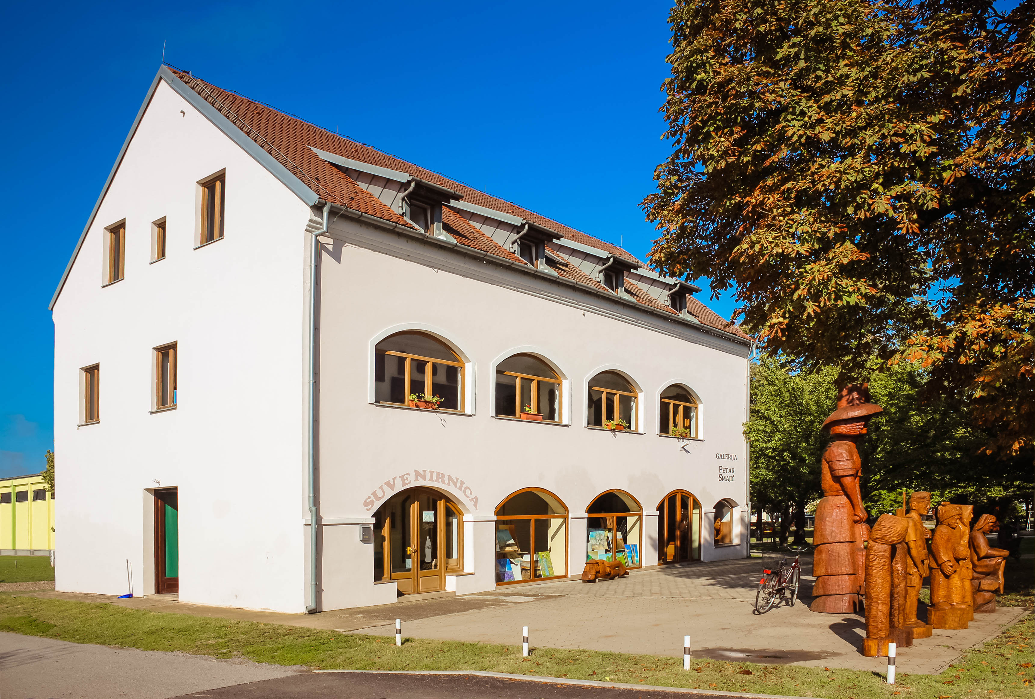 Gallery Petar Smajić